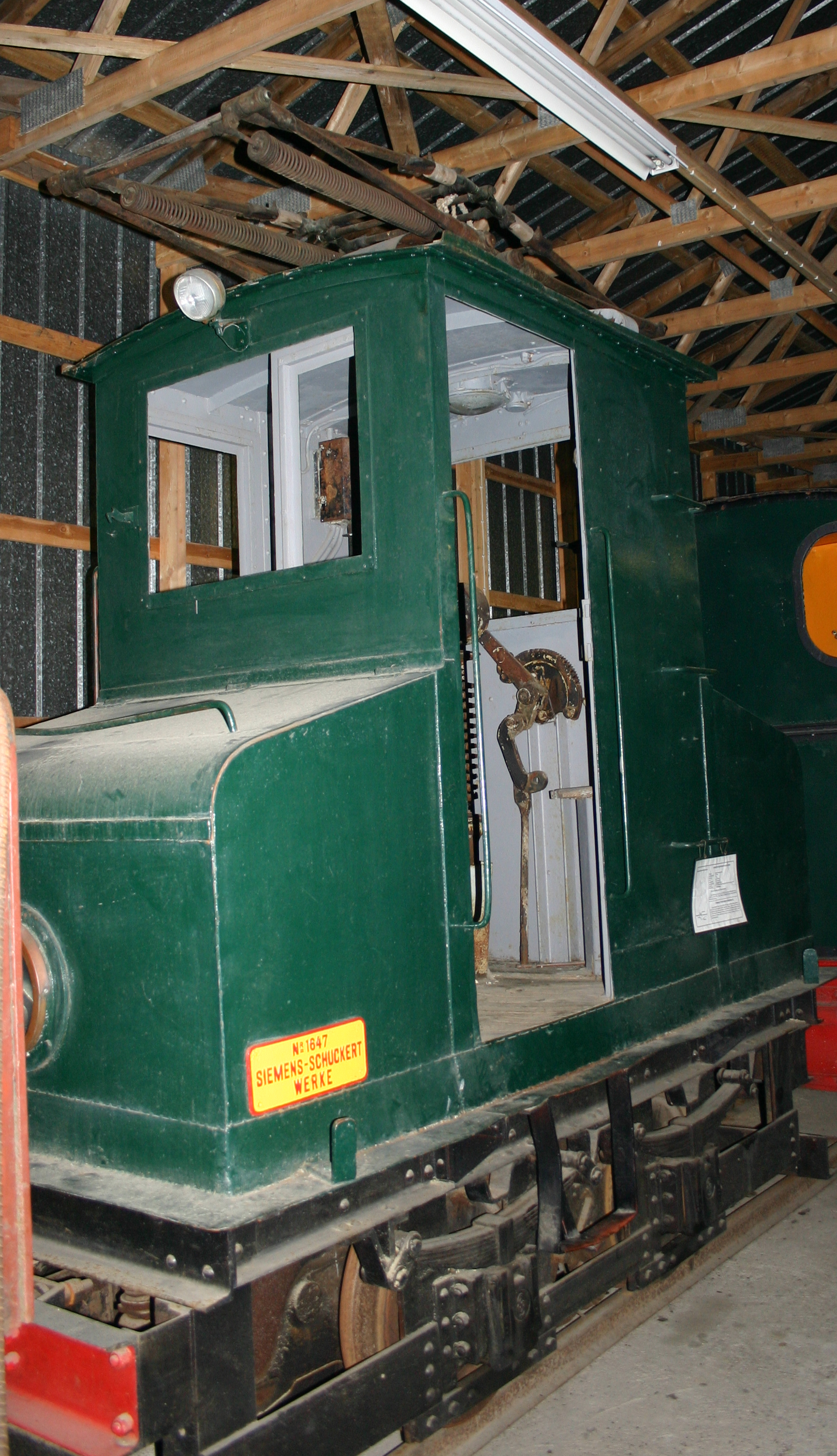 The newer locomotive of the Forssa electric railway